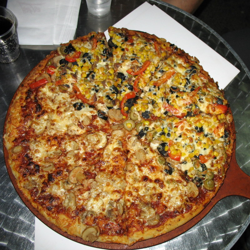 Pizza with corn and za'atar at Pizza B'Riboa in Kfar Saba, Israel